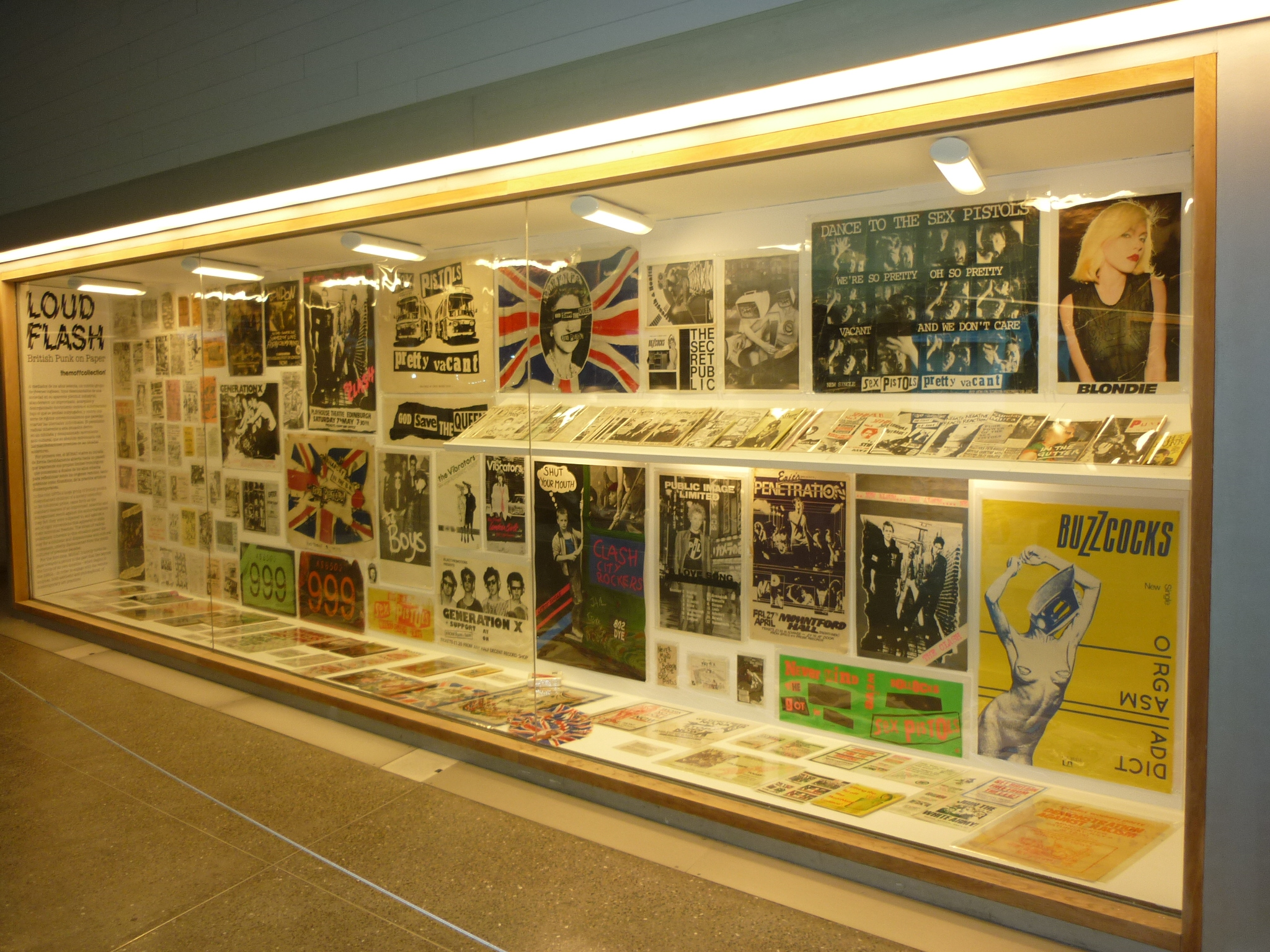 Instalation shot of Punk on Paper